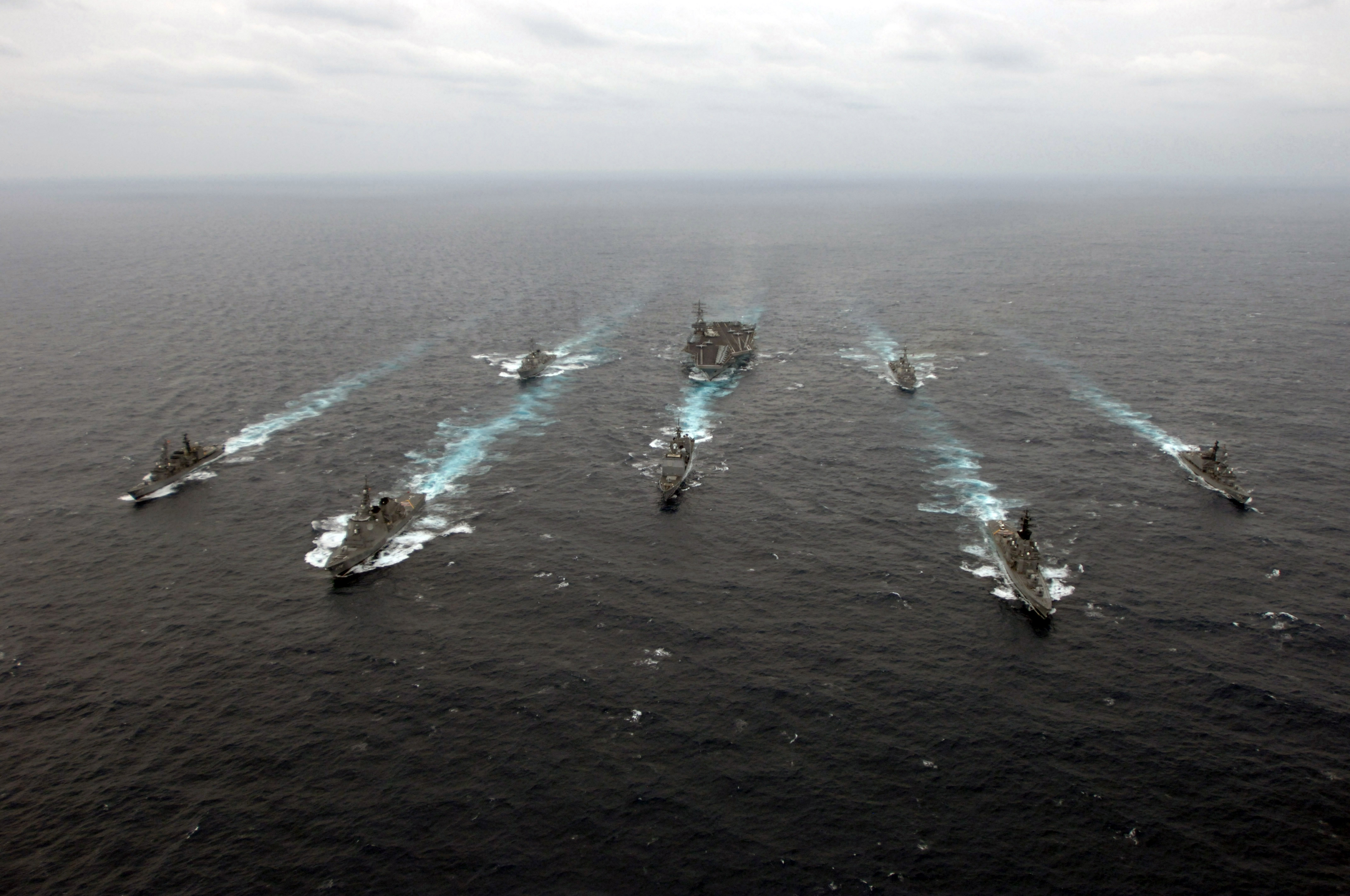 PHILIPPINE SEA (March 18, 2007) - Ships assigned to Ronald Reagan Carrier Strike Group and Japan Maritime Self-Defense Force (JMSDF) steam in formation during a photo exercise (PHOTOEX). Ronald Reagan Carrier Strike Group, with embarked Carrier Air Wing (CVW) 14, is deployed in support of operations in the 7th Fleet area of responsibility. Front row, left to right, is the JS Yūgiri (DD-153), the JS Myōkō (DDG-175), the USS Lake Champlain (CG-57), the JS Haruna (DDH-141), and the JS Hamagiri (DD-155). Back row is the USS Russell (DDG-59), the USS Ronald Reagan (CVN-76), and the USS Paul Hamilton (DDG-60).